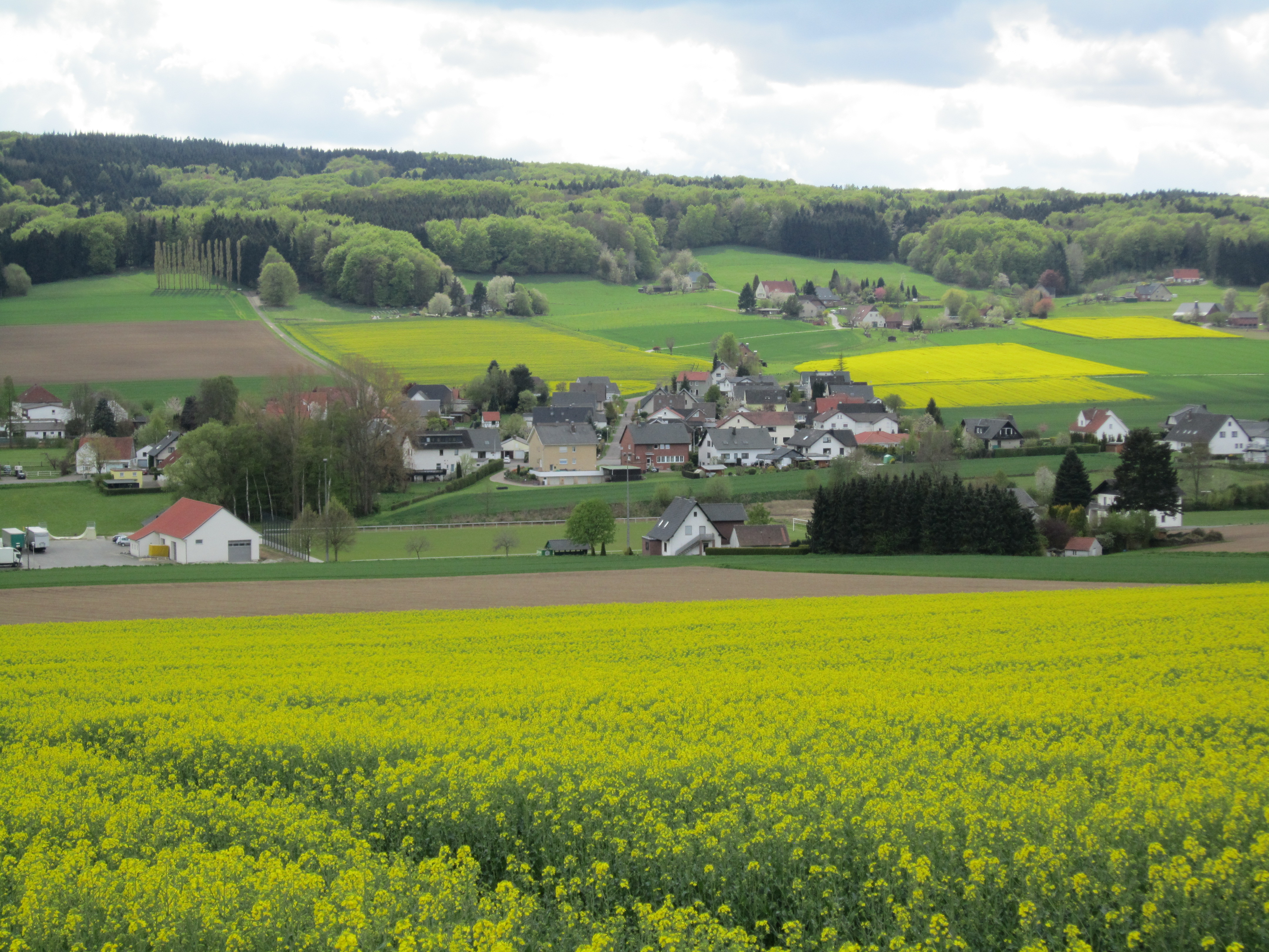 Valley "Eggetal" in Kreis Minden-Lübbecke